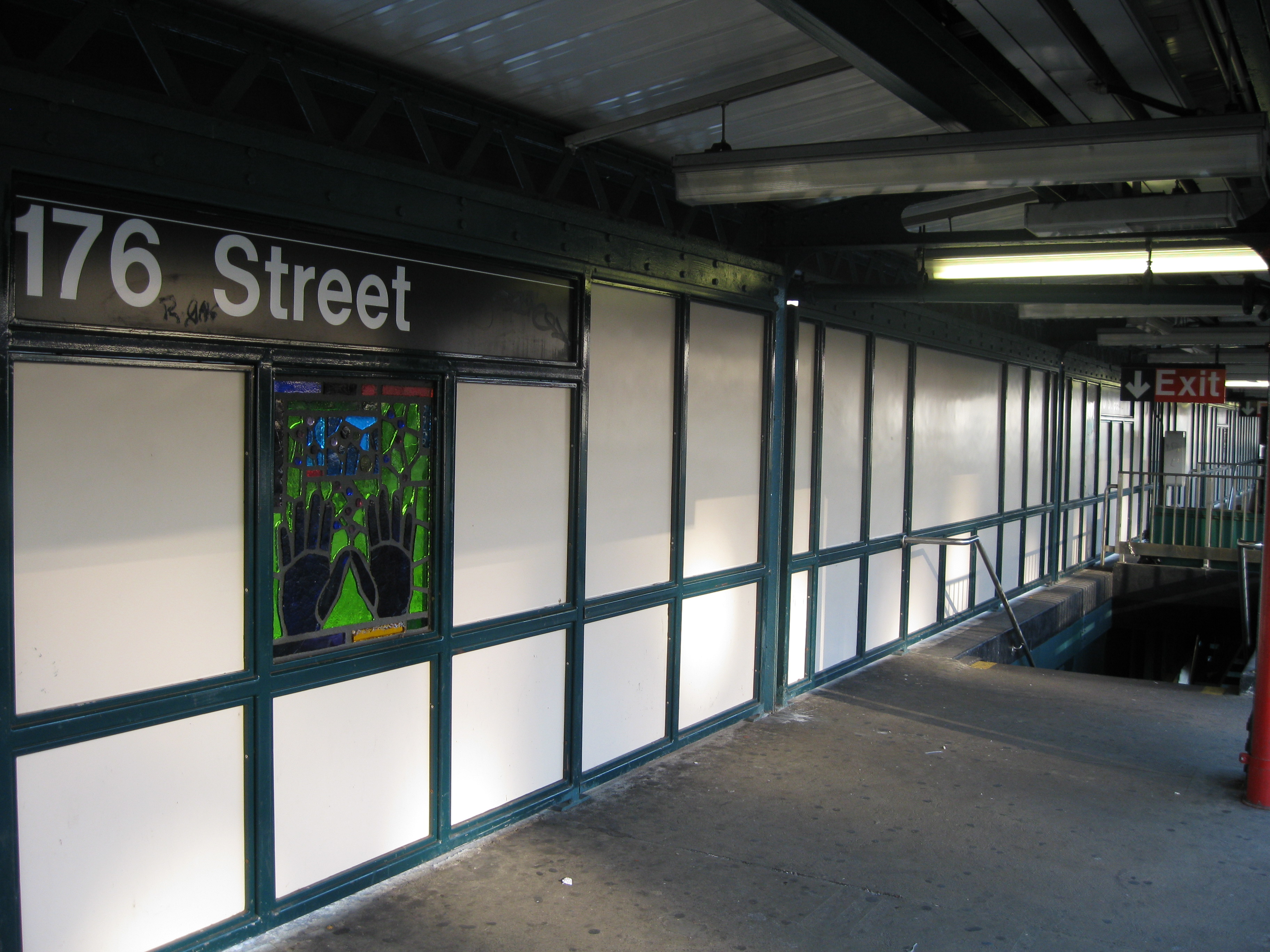 Platform on the 176th St. station station (on the 4 train on Jerome Avenue) of the MTA New York City subway in the Bronx.